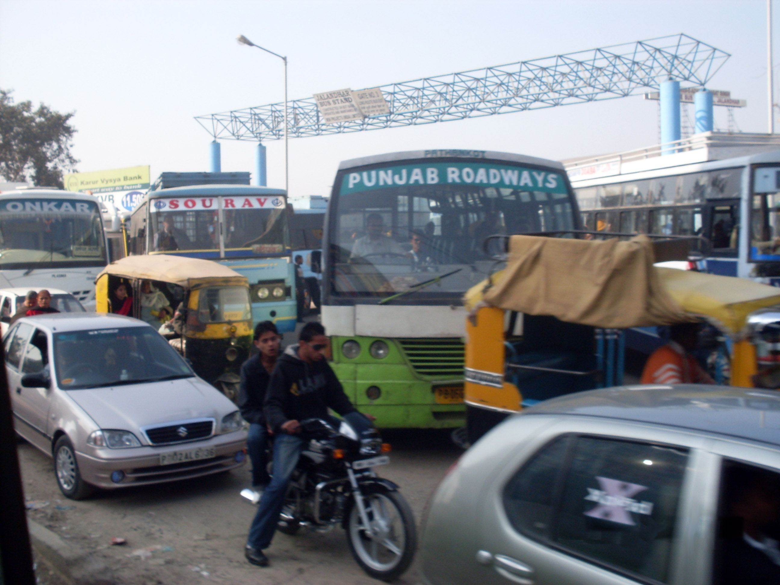 Exit gate for long route buses. Notice the rush, which may be due to the traffice lights walking distance from gate, as well as due to the consctruction going on.....